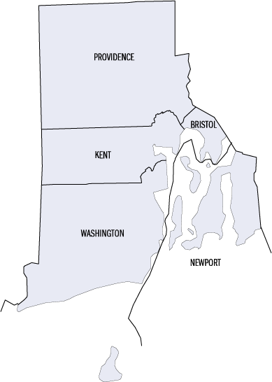 Rhode Island county map